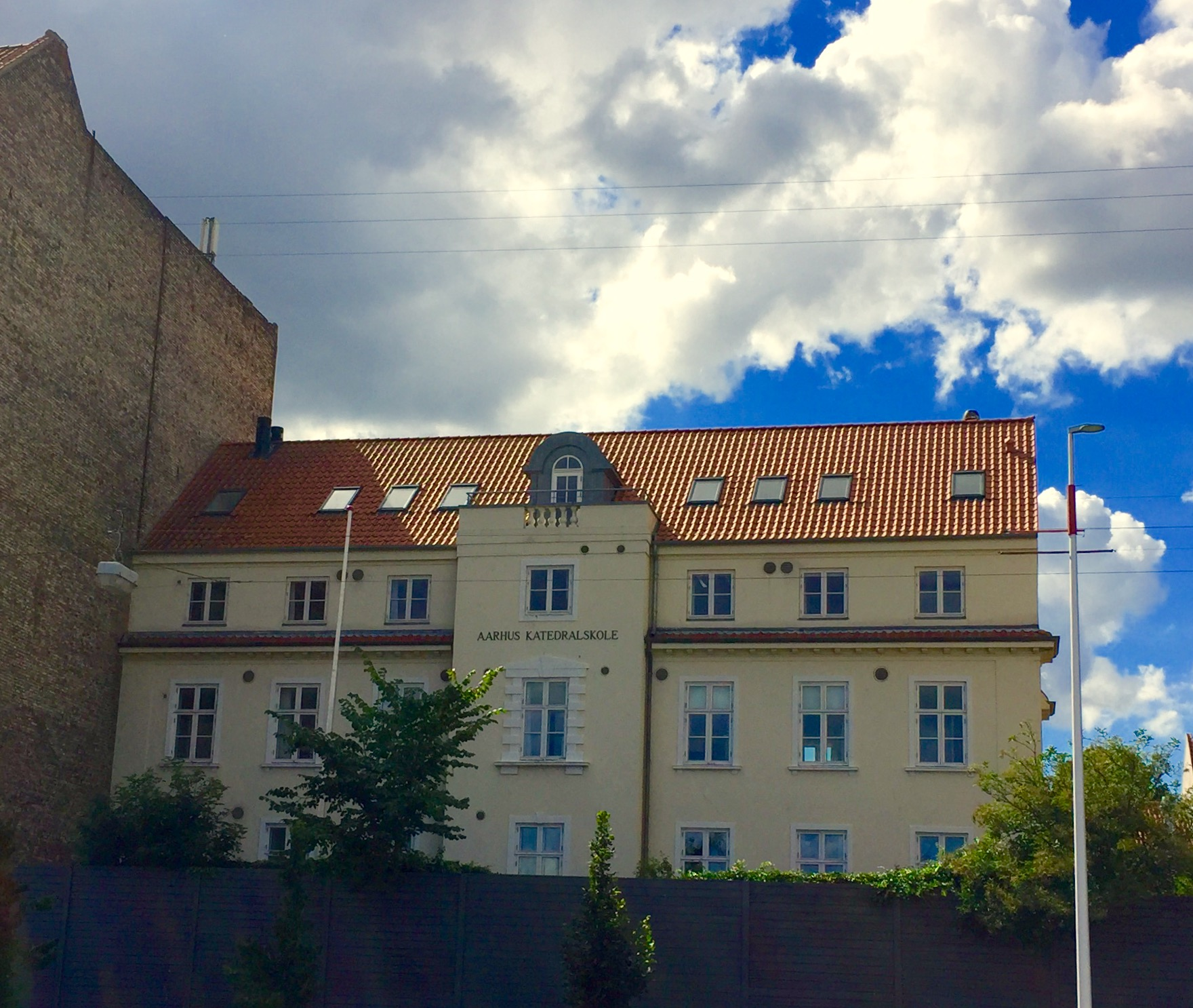 Aarhus Katedalskole, yellow buildiing from 1800